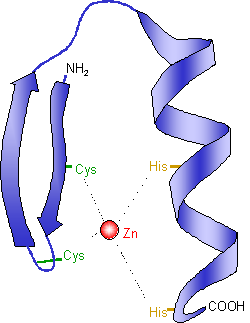 Zinc finger (hand-drawn schematic after image of crystal structure)